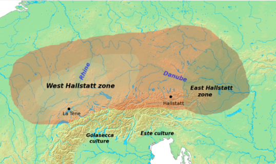 the Hallstatt culture. See e.g. John T. Koch, Celtic Culture: A Historical Encyclopedia (2006), p. 888 [1]; Atlas of the Celtic World, by John Haywood; London Thames & Hudson Ltd., 2001, pp.30-37.